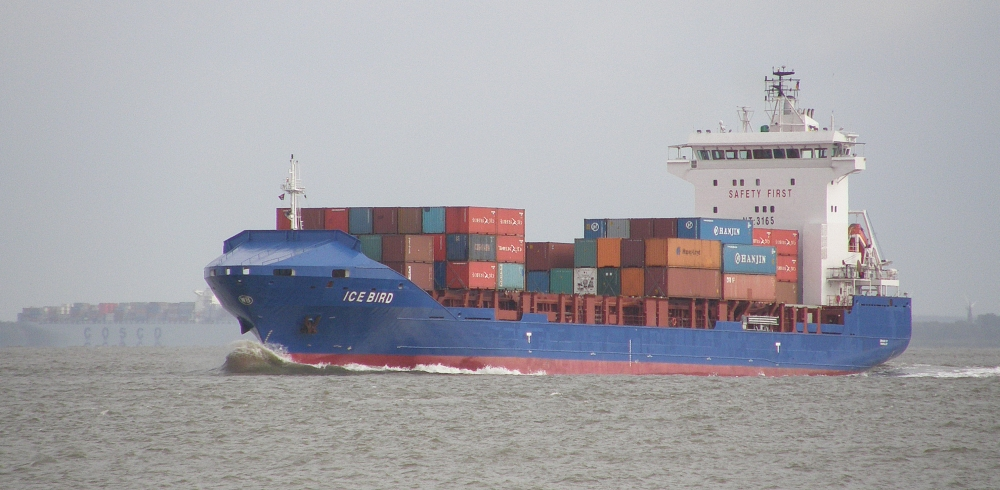 IMO number: 9375252 1st name: ICE BIRD flag / nationality: Cyprus completion year: 2007 shipyard: Sainty Shipbuilding, China yard / hull number: 05STIG12 engine design: MAK engine type: 8M43C power output (KW): 7.200 maximum speed (Kn): 17,3 overall length (m): 129,20 overall beam (m): 20,60 maximum draught (m): 7,20 maximum TEU capacity: 690 container capacity at 14t (TEU): 441 reefer containers (TEU): 120 deadweight (ton): 8.210 gross tonnage (ton): 7.460